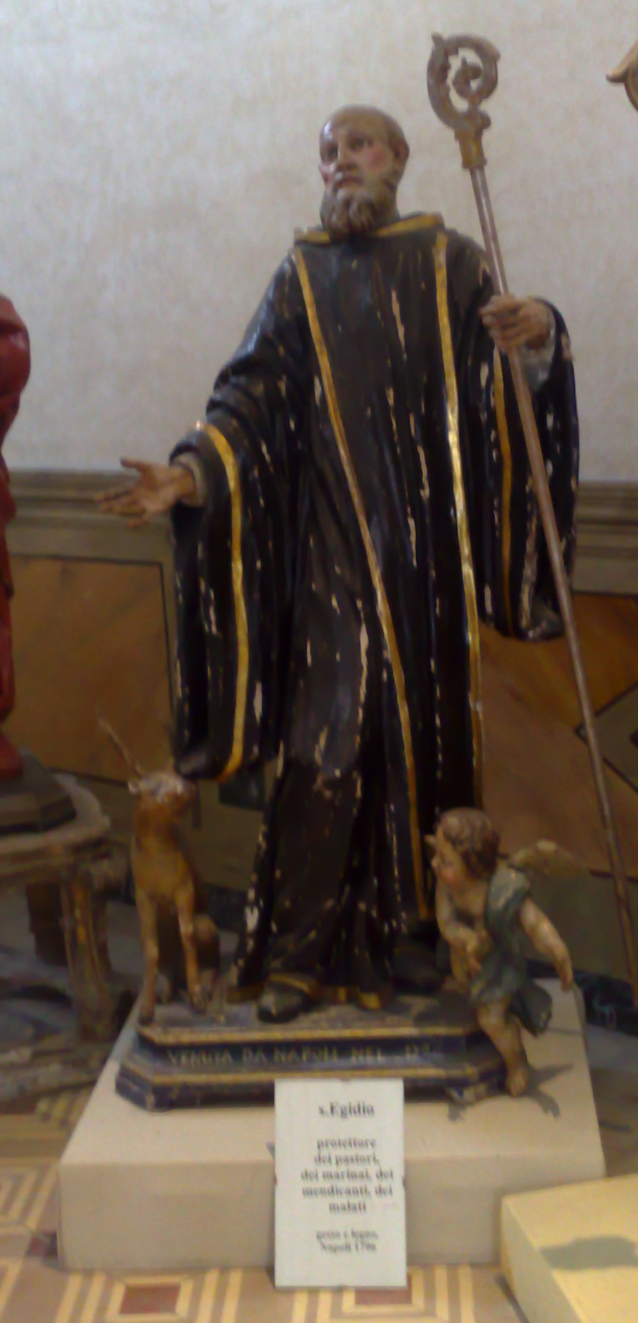 Saint Giles with deer